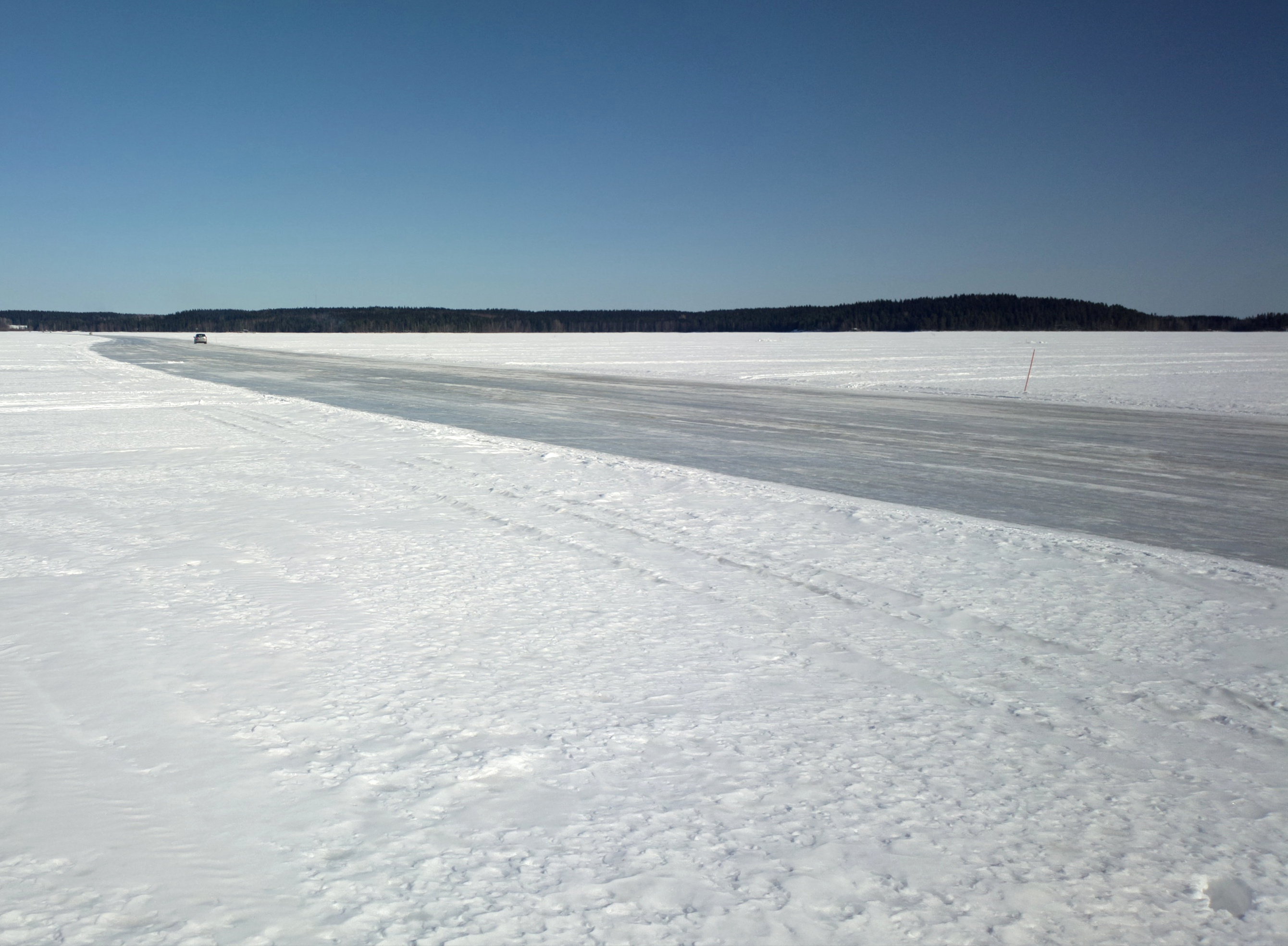 Ice road over Lake Kyrösjärvi in Ikaalinen